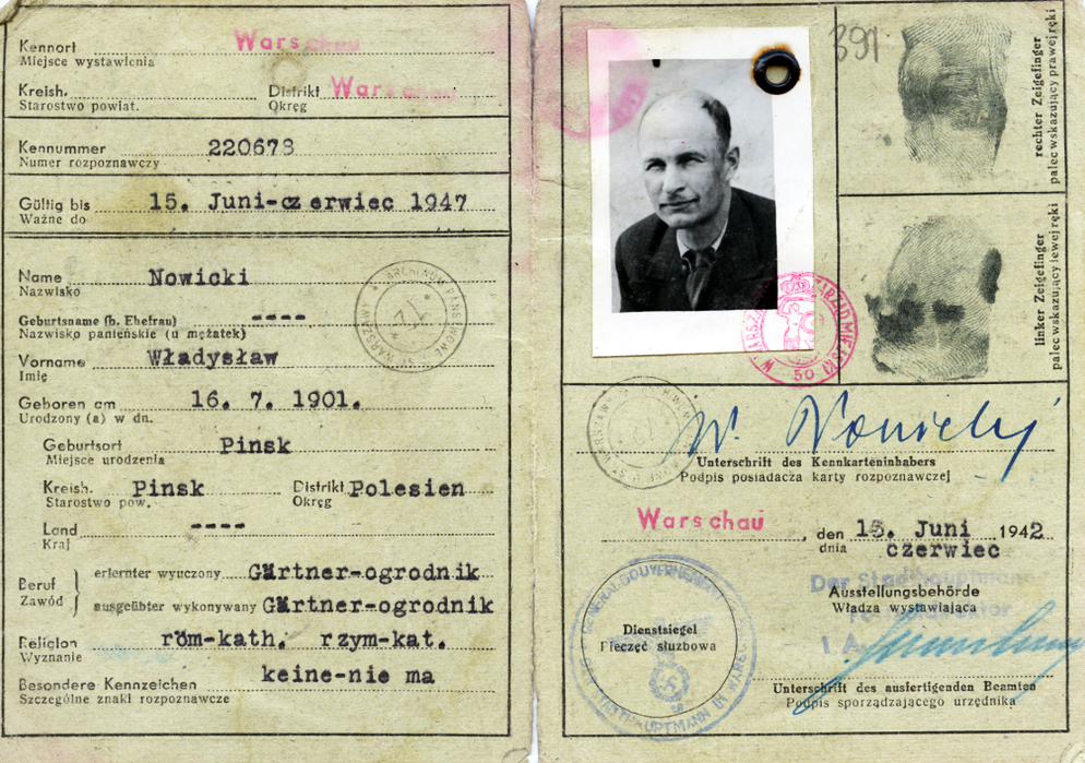 Władysław Siła-Nowicki (1913-1994) – Polish lawyer and politician. Soldier of Armia Krajowa and Wolność i Niezawisłość, political prisoner 1947-1956. ID – Card from the period of Occupation of Poland (1939–1945) by Nazi-Germany .